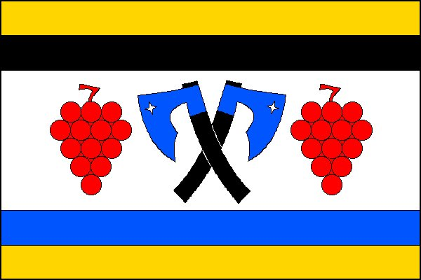 Municipal flag of Strážovice village, Hodonín District, Czech Republic.